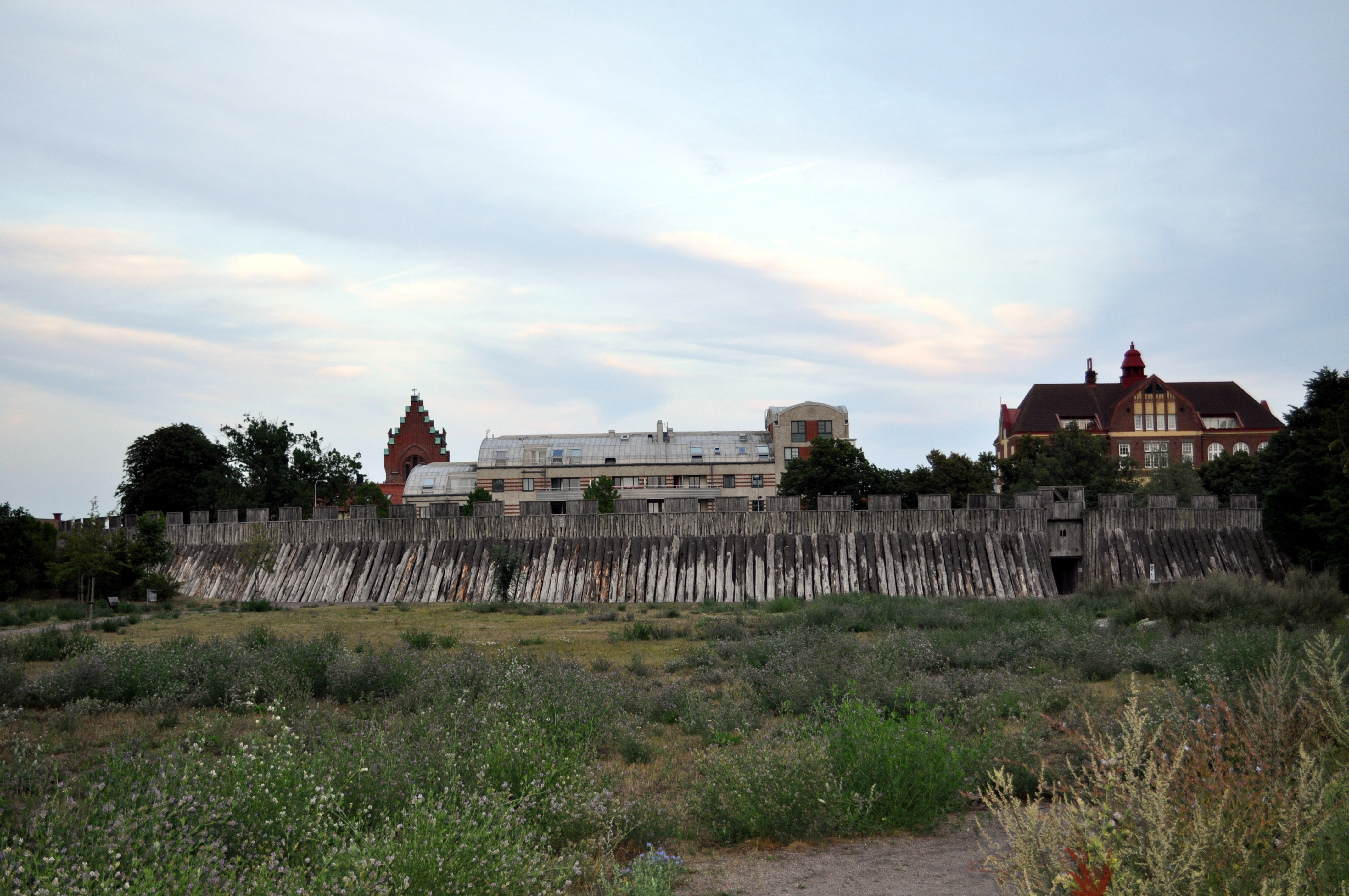 The Trelleborg in Trelleborg (Schweden)